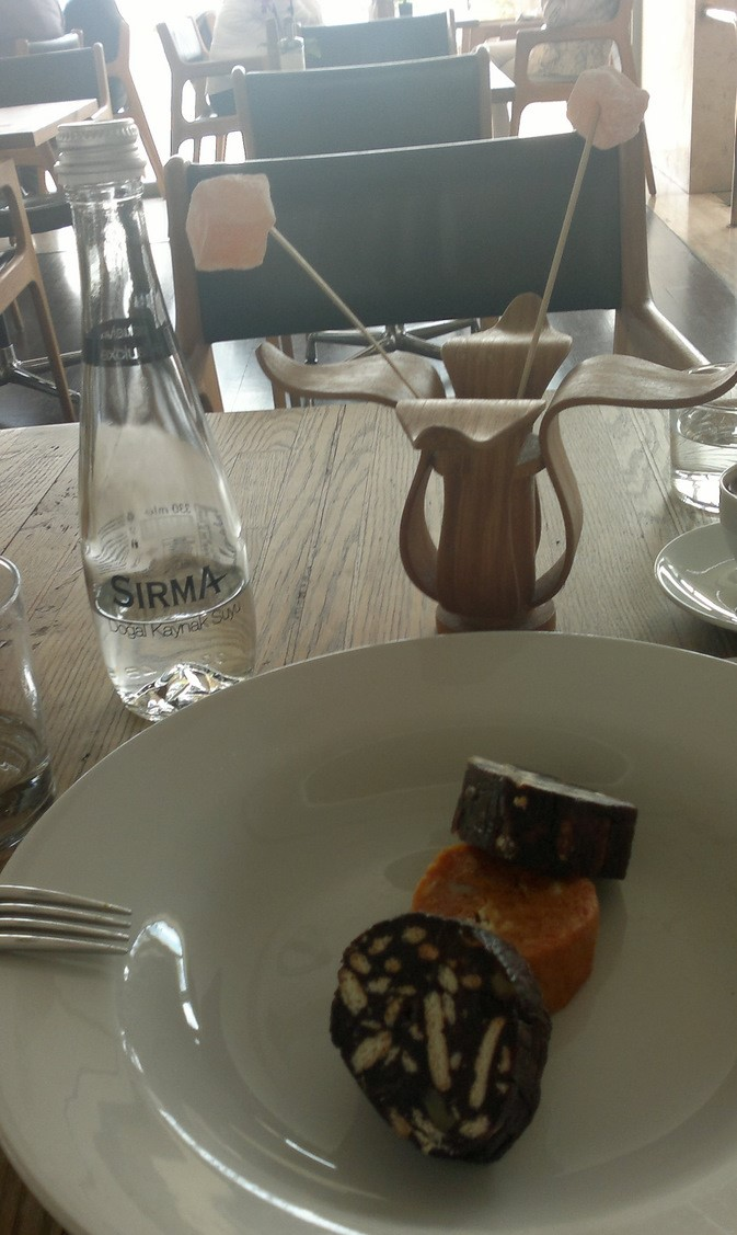 Famous Changa Restaurant branch offers Turkish delights and nice view over Bosporus.